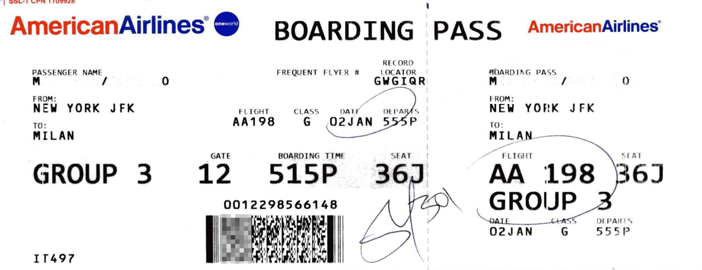 United States of America United States of America, American Airlines boarding pass for flight AA 198 from New York City John F. Kennedy International Airport to Milan Malpensa Airport issued on January 2, 2013.